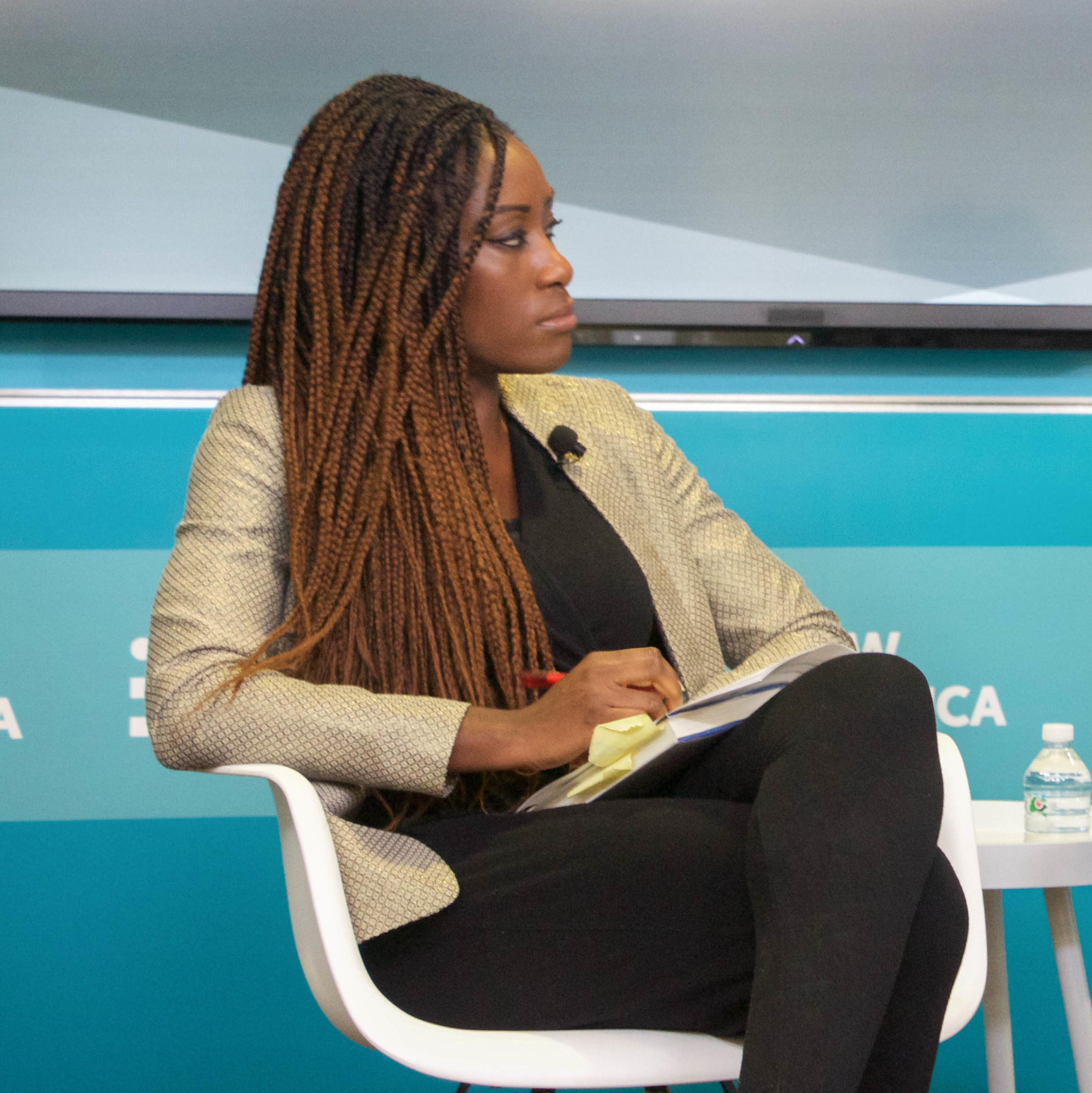 Karen Attiah, Global Opinions Editor, the Washington Post; Alexis Okeowo, Staff writer, The New Yorker; New America National Fellow, Class of 2016 & 2017; Author, A Moonless, Starless Sky: Ordinary Women and Men Fighting Extremism in Africa; 2012 IRP Fellow, reporting from Nigeria